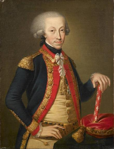 Portrait of Charles Emmanuel IV of Sardinia (1751-1819)